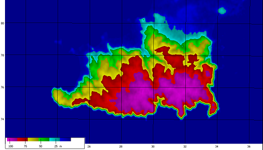 Topographic relief map of the Channel Island of Guernsey. Produced from SRTM data using Microdem. Own work. Jaraalbe 08:37, 21 May 2006 (UTC)